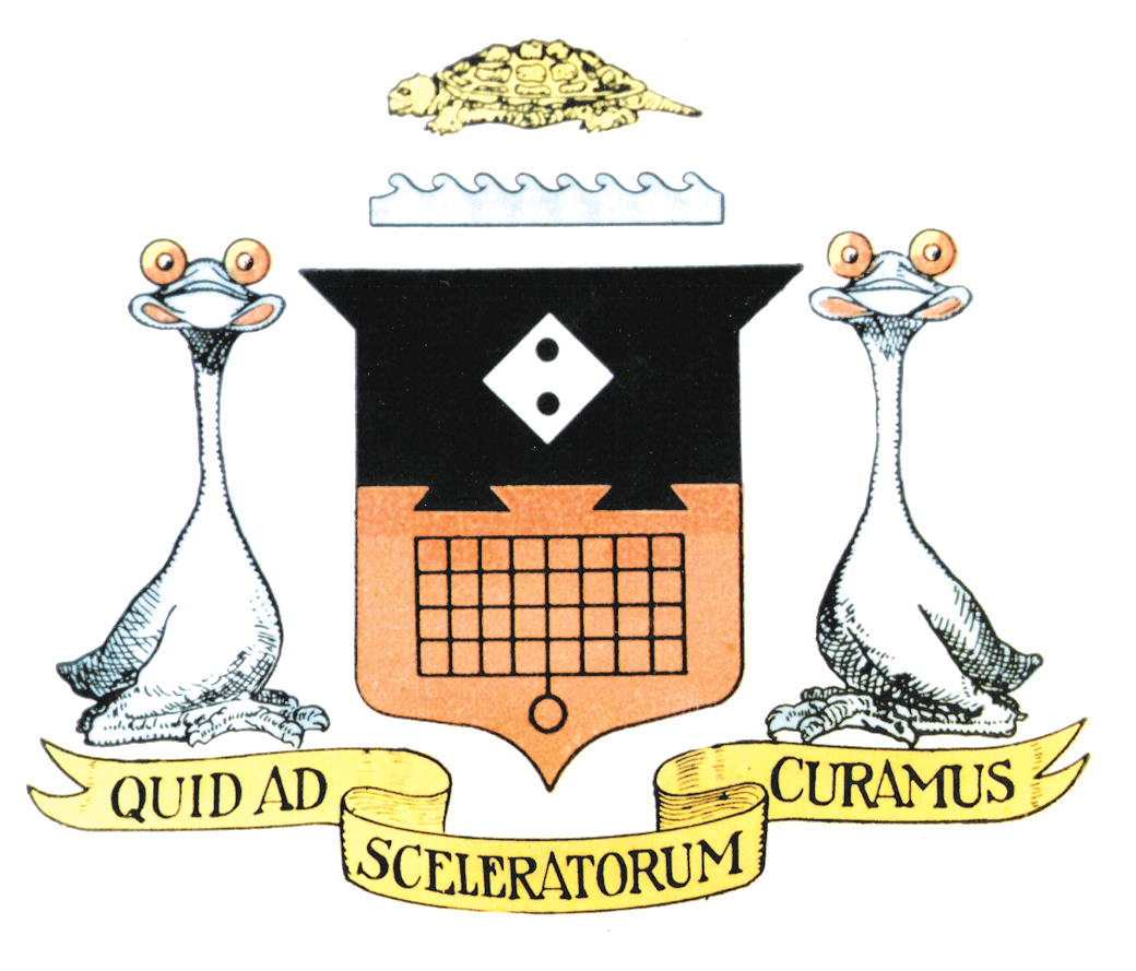 This image was originally from the pamphlet from July 1, 1957 Ceremony At Ft. Bliss when it was re-designated U.S. Army Air Defense Center and Major General Sam C. Russell assumed command and became Chief Oozlefinching II. It has many derivative works in existence, and this image is a black and white rendition of that original military ceremony pamphlet. This image and its derivatives are widely available on the internet and from the Air Defense Artillery Museum at Fort Bliss.